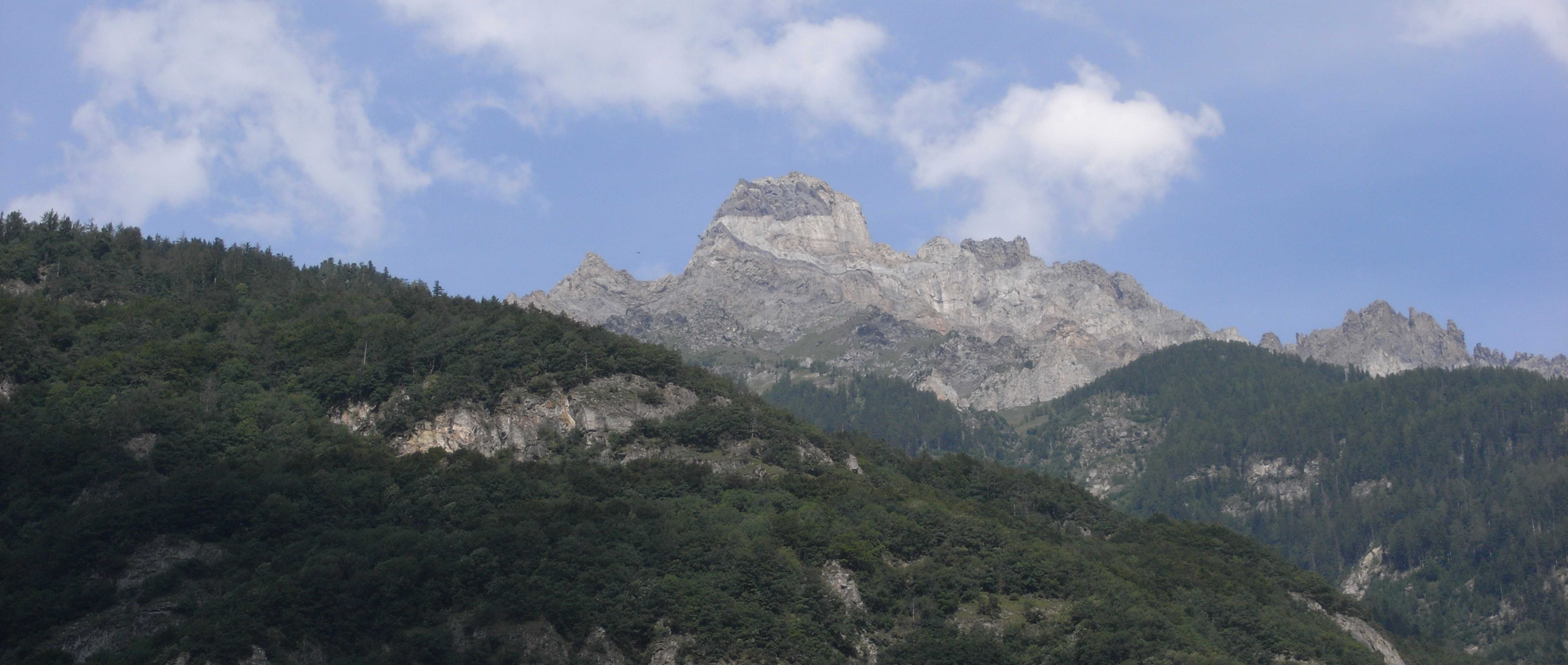 overturned fold of Dent de Morcles (Valais, Switzerland), Fold of Morcles